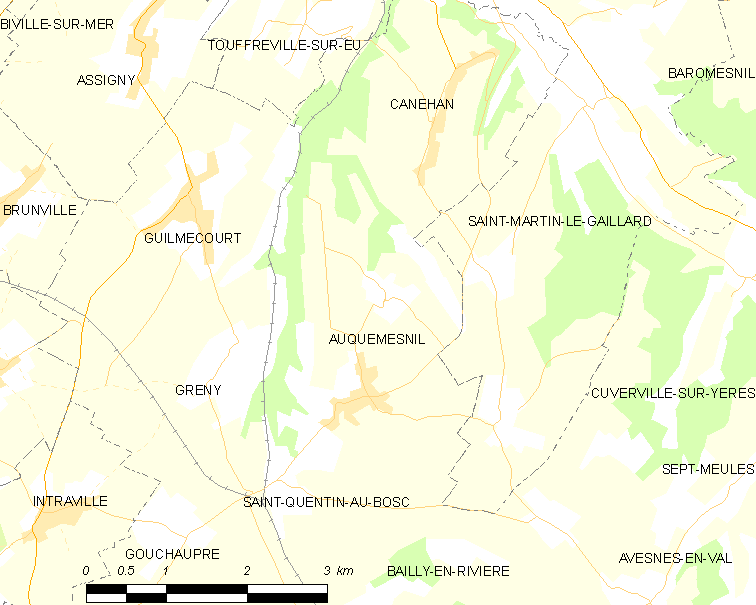 Map of French municipality Auquemesnil